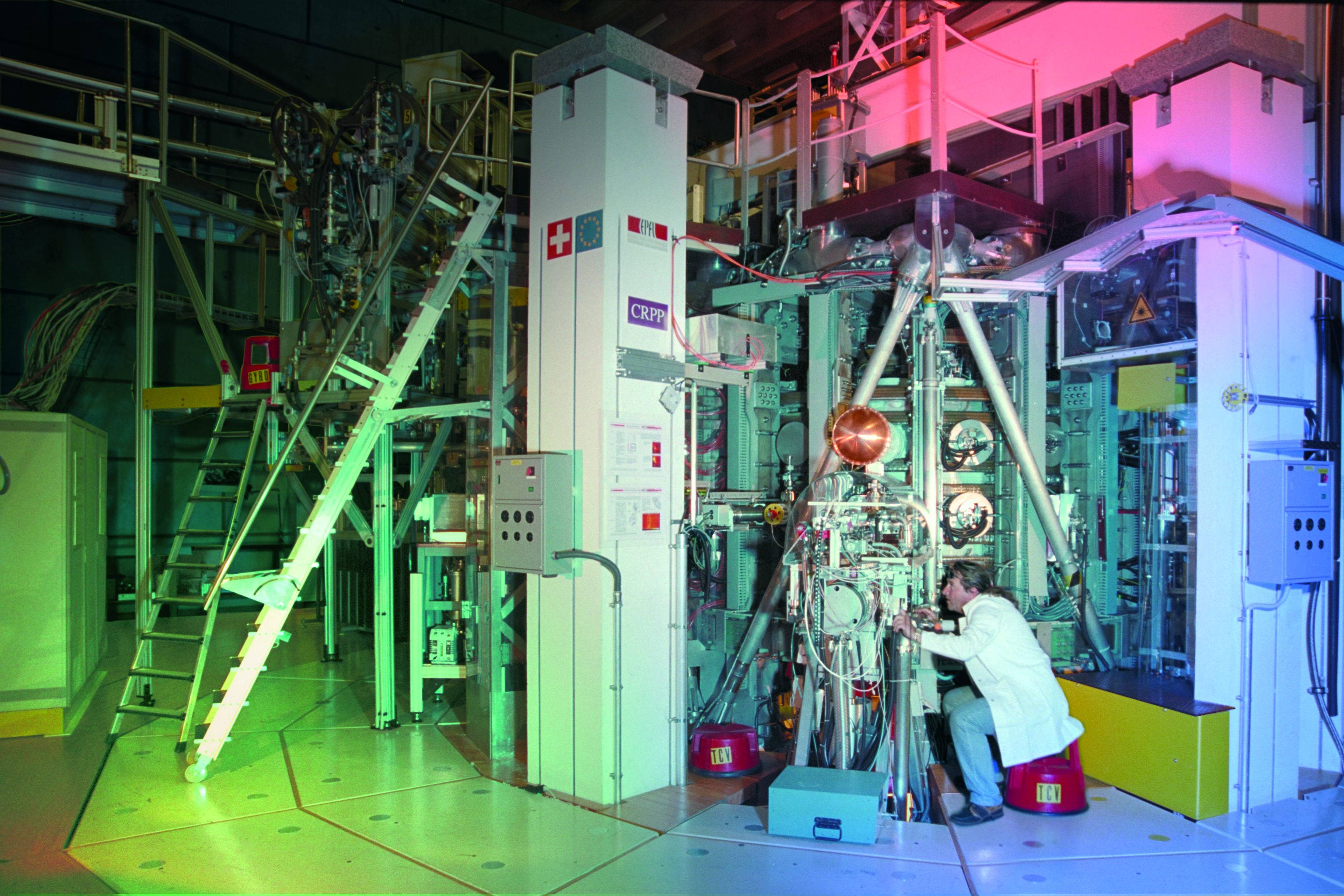 Tokamak à Configuration Variable (TCV). Photograph by Mr Claude Raggi. Courtesy of CRPP-EPFL, Association Suisse-Euratom